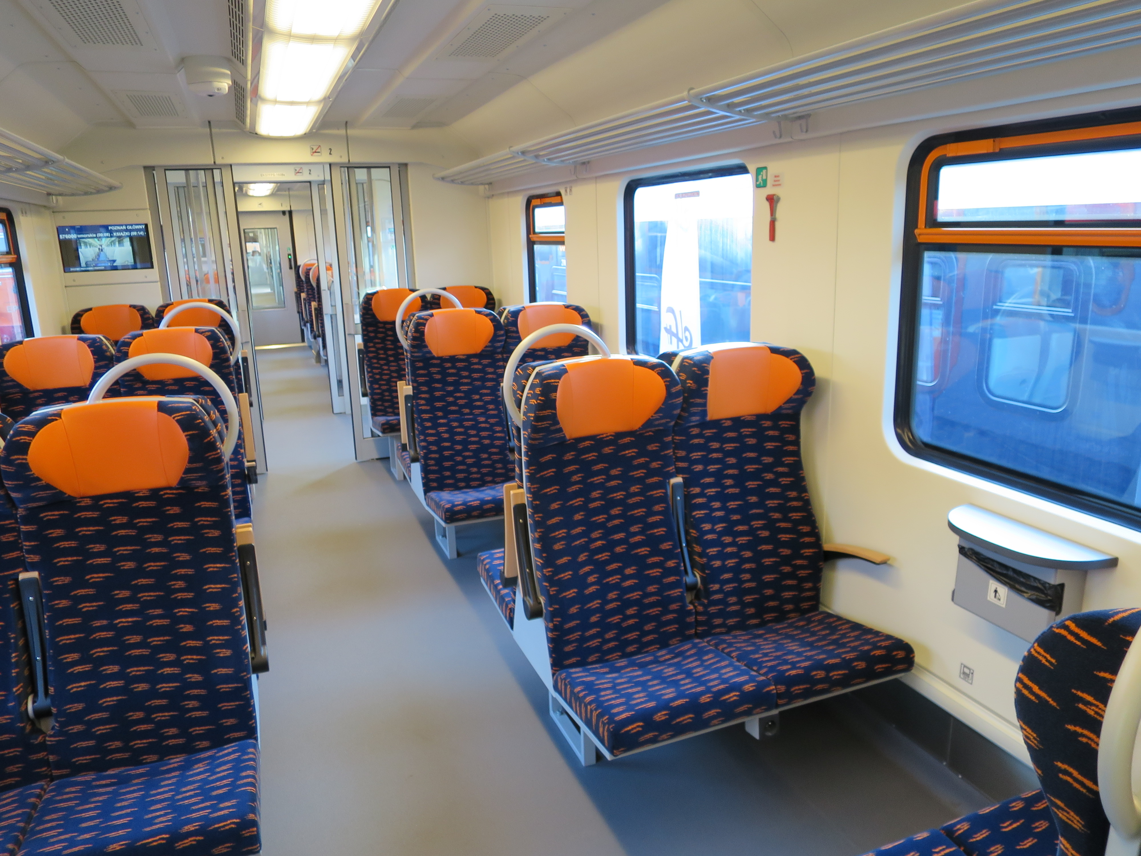 The making of this document was supported by Wikimedia Polska Association, within Wikigrant no. WG 2017-44. EN57FPS